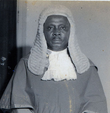 Portrait of RWA RHODES-VIVOUR